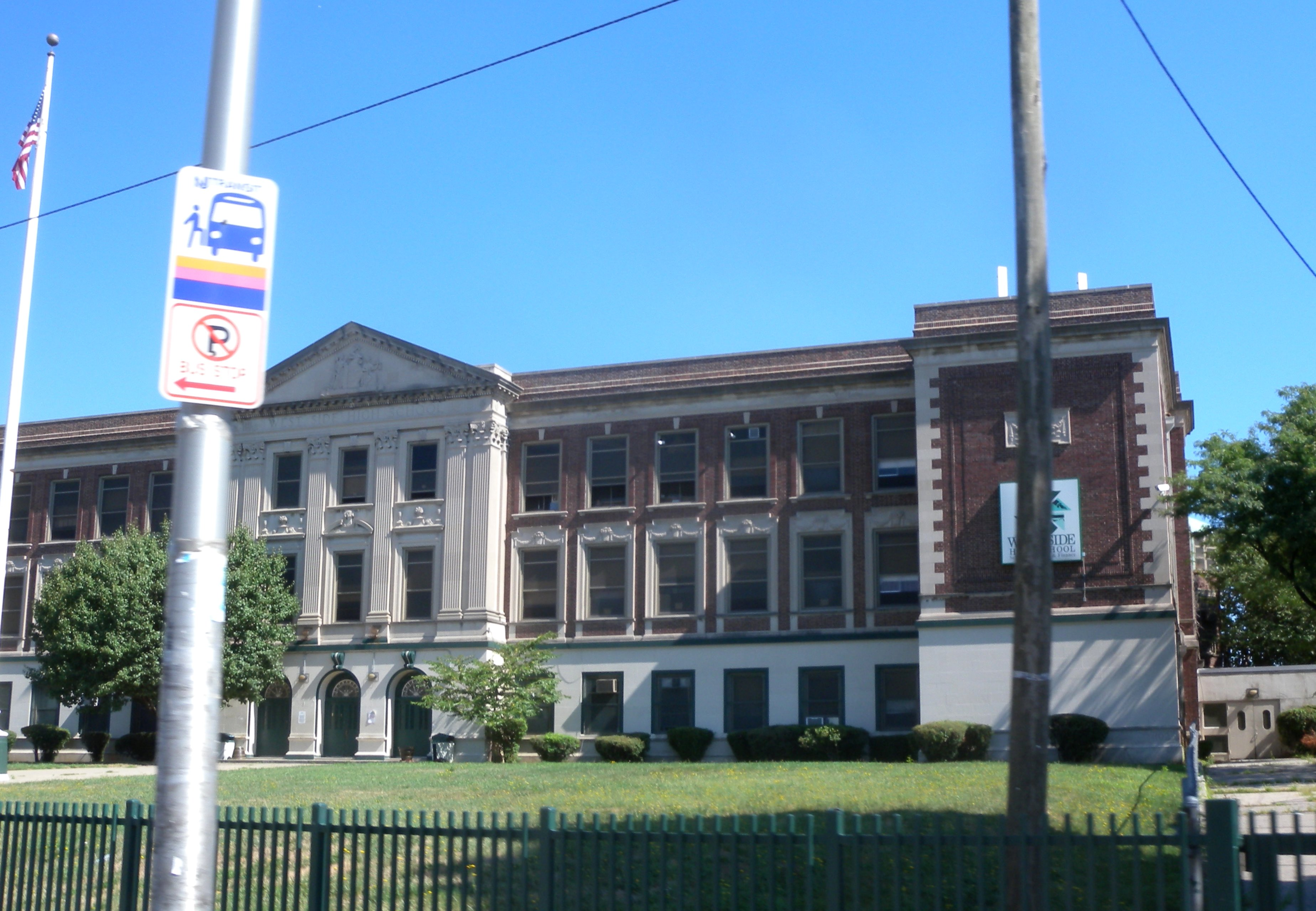 Looking north from West Orange Avenue at West Side High on a sunny morning.